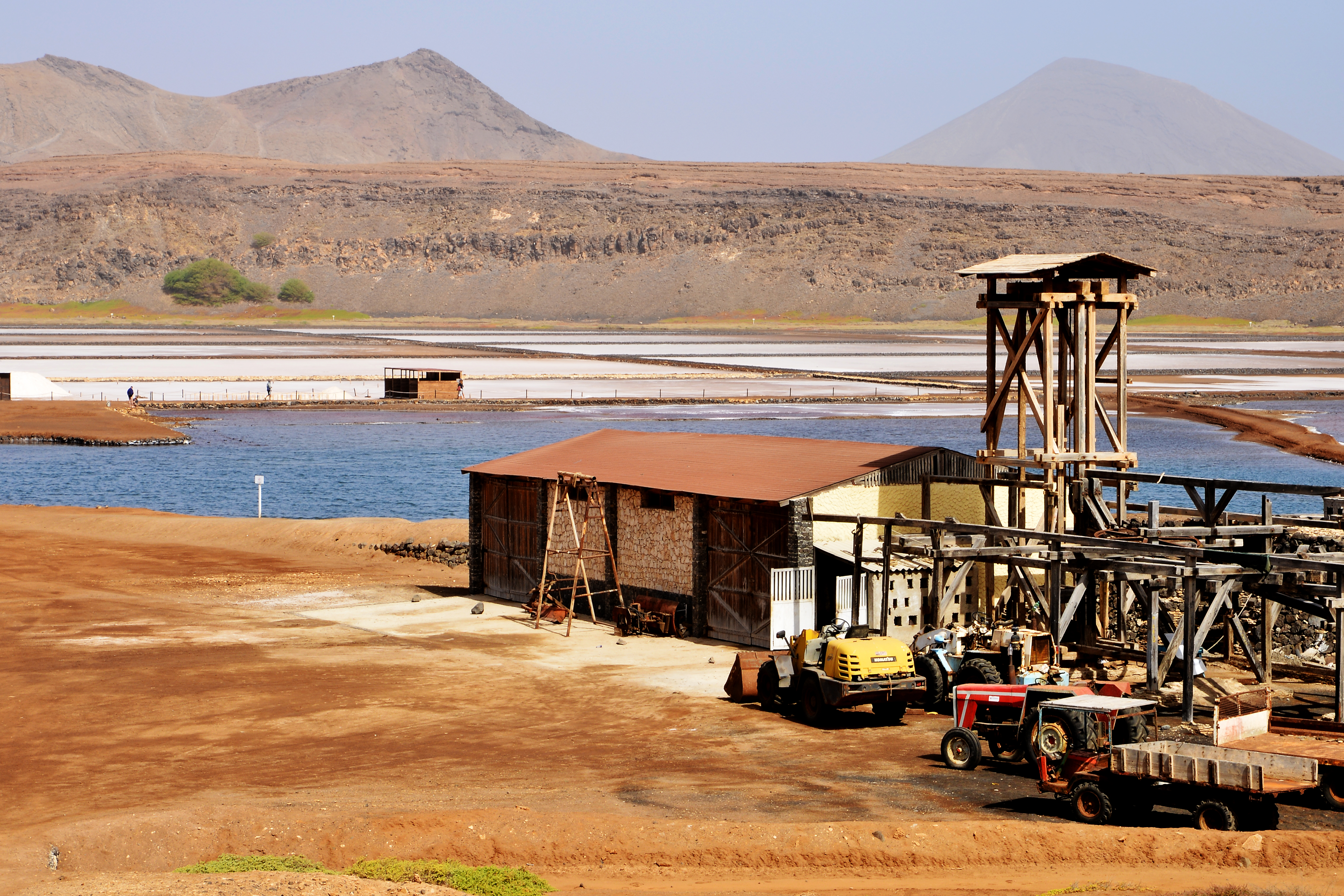 In the old volcano crater, they have sence long had salt ponds that are still in operation. (Salinas Pedra Lume)